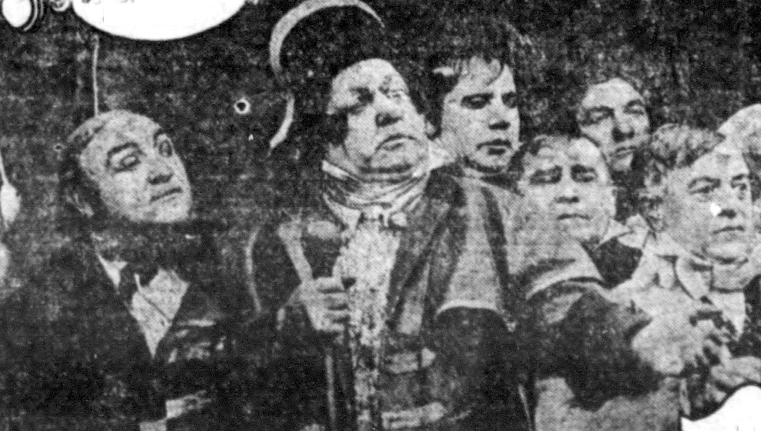 Harry L. Rattenberry (assumed to be the center) depicted in a photo with his other cast members in a 1916 adaption of Oliver Twist, as published in a contemporary newspaper.